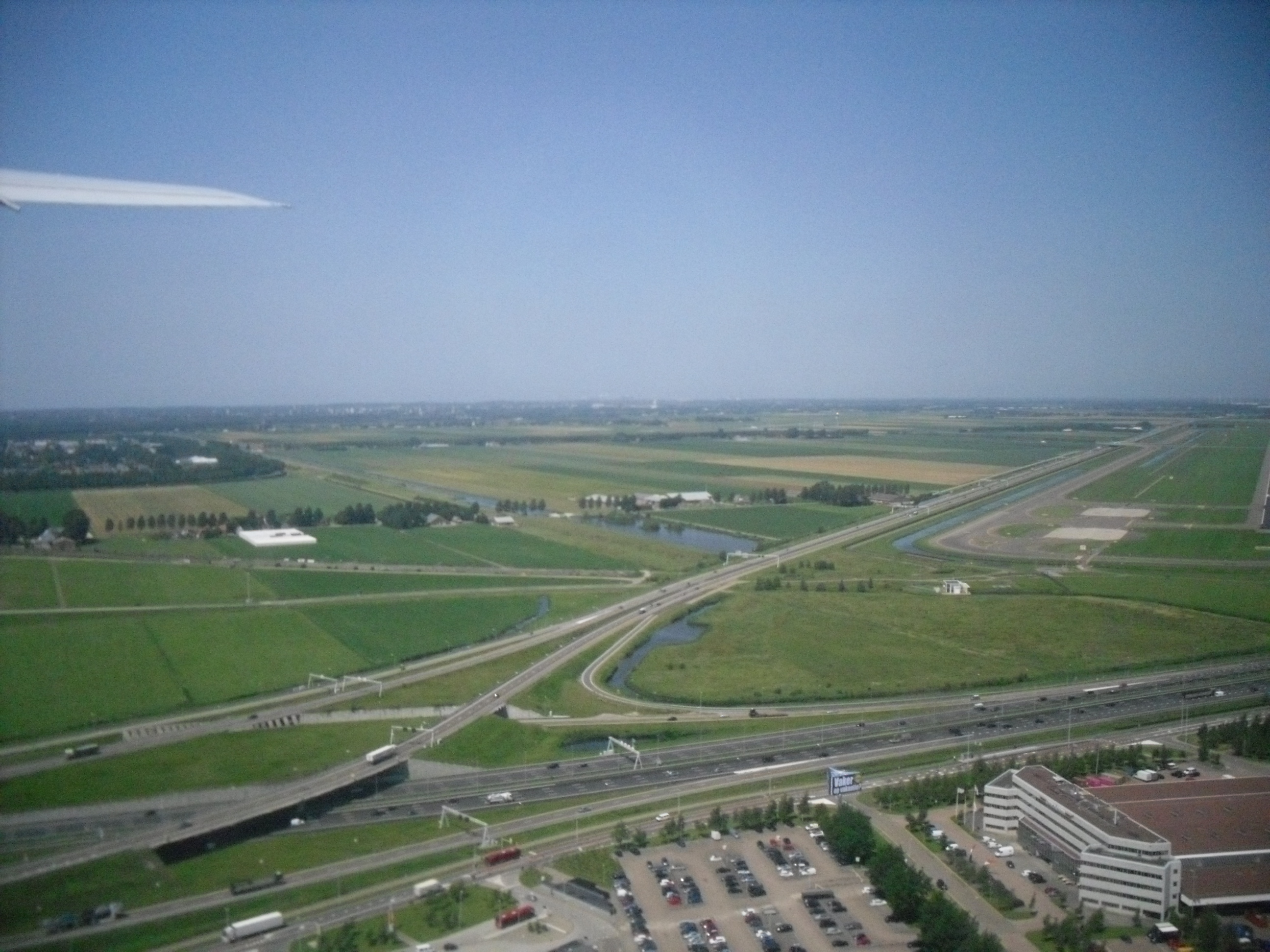 Knooppunt De Hoek, near the village of De Hoek, from a Boeing 777-206ER (PH-BQP "Pont du Gard") Schiphol - John F. Kennedy Airport (New York).